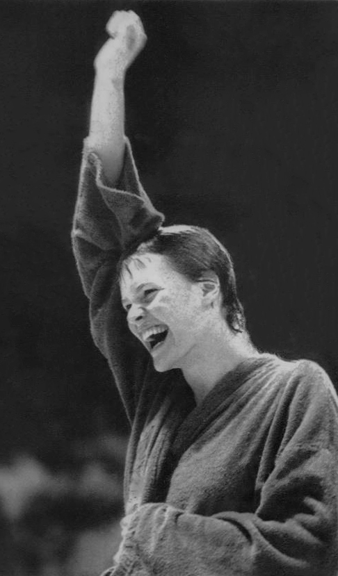 1974 Press Photo Swimmer Wendy Cook of Canada after setting World Record